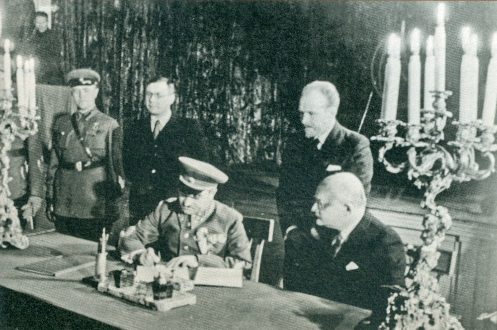 Signing of the agreement about the return of the Hungarian historical flags to Hungary from the Soviet Unionlabel QS:Len,"Signing of the agreement about the return of the Hungarian historical flags to Hungary from the Soviet Union" label QS:Lhu,"A magyar történelmi zászlók visszaadásáról szóló egyezmény aláírása Moszkvában, Tyulenyev hadseregtábornok és Kristóffy József követ"